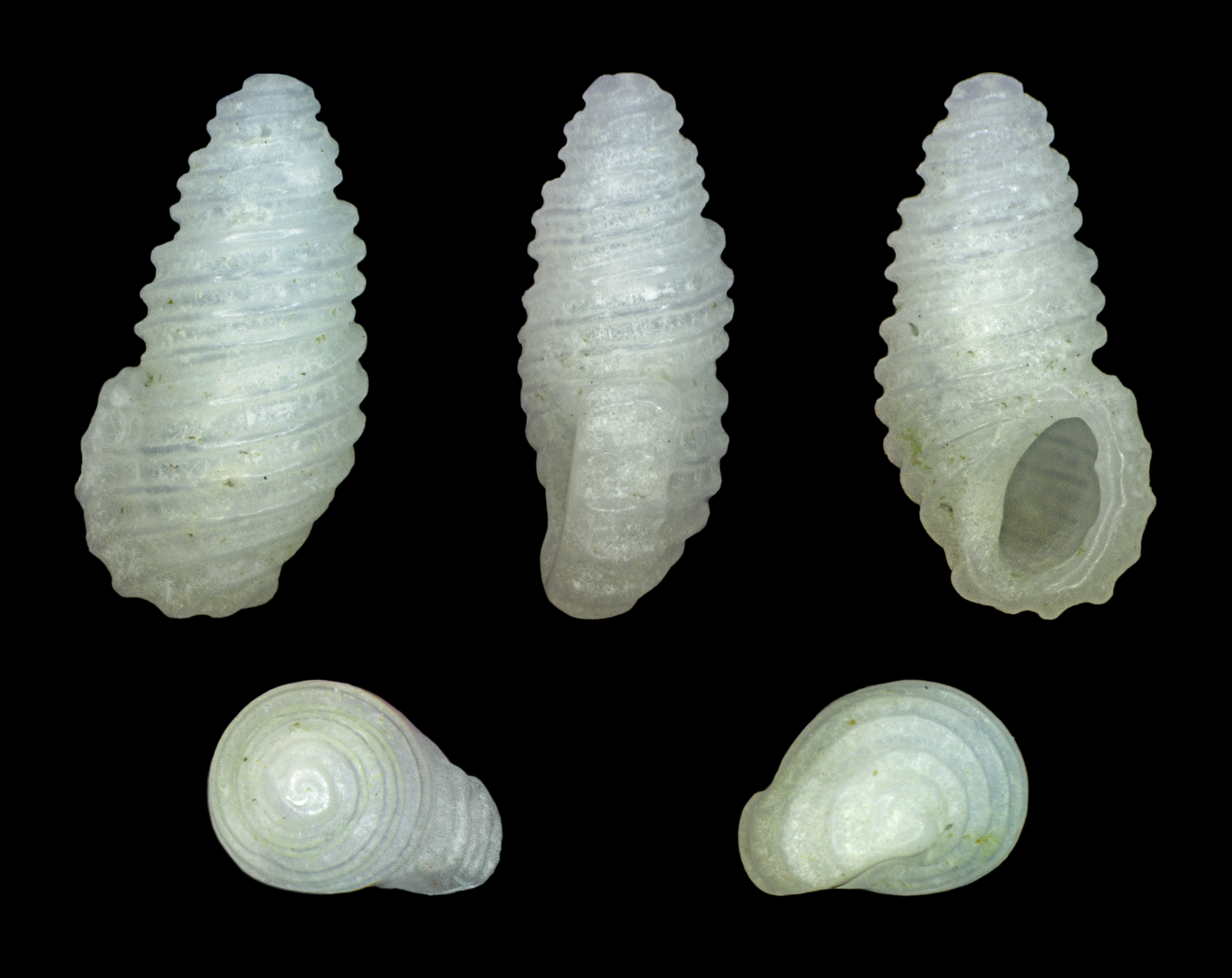 Length 0.35 cm; Originating from Hong Kong, China; Shell of own collection, therefore not geocoded. Dorsal, lateral (right side), ventral, back, and front view.